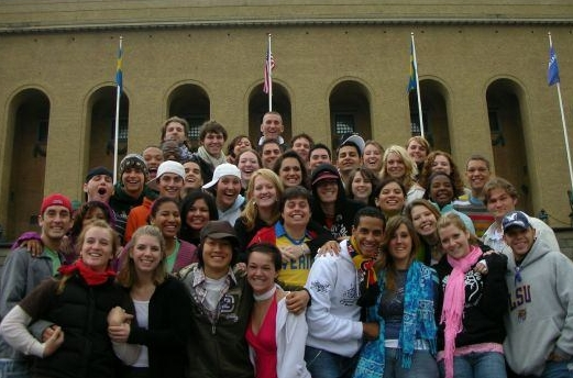 Cast of the Young Americans Outreach Tour